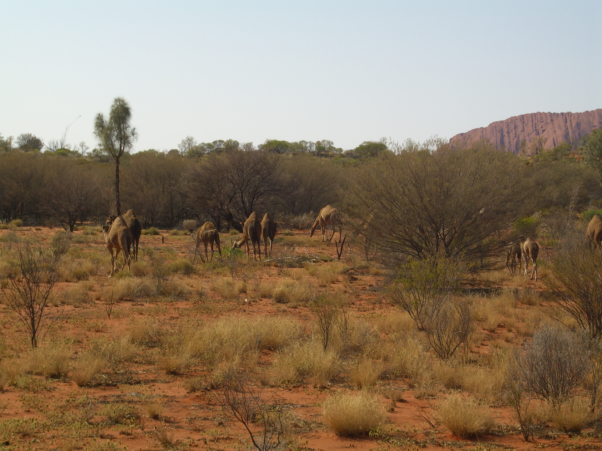 Camels near Uluru in Australia